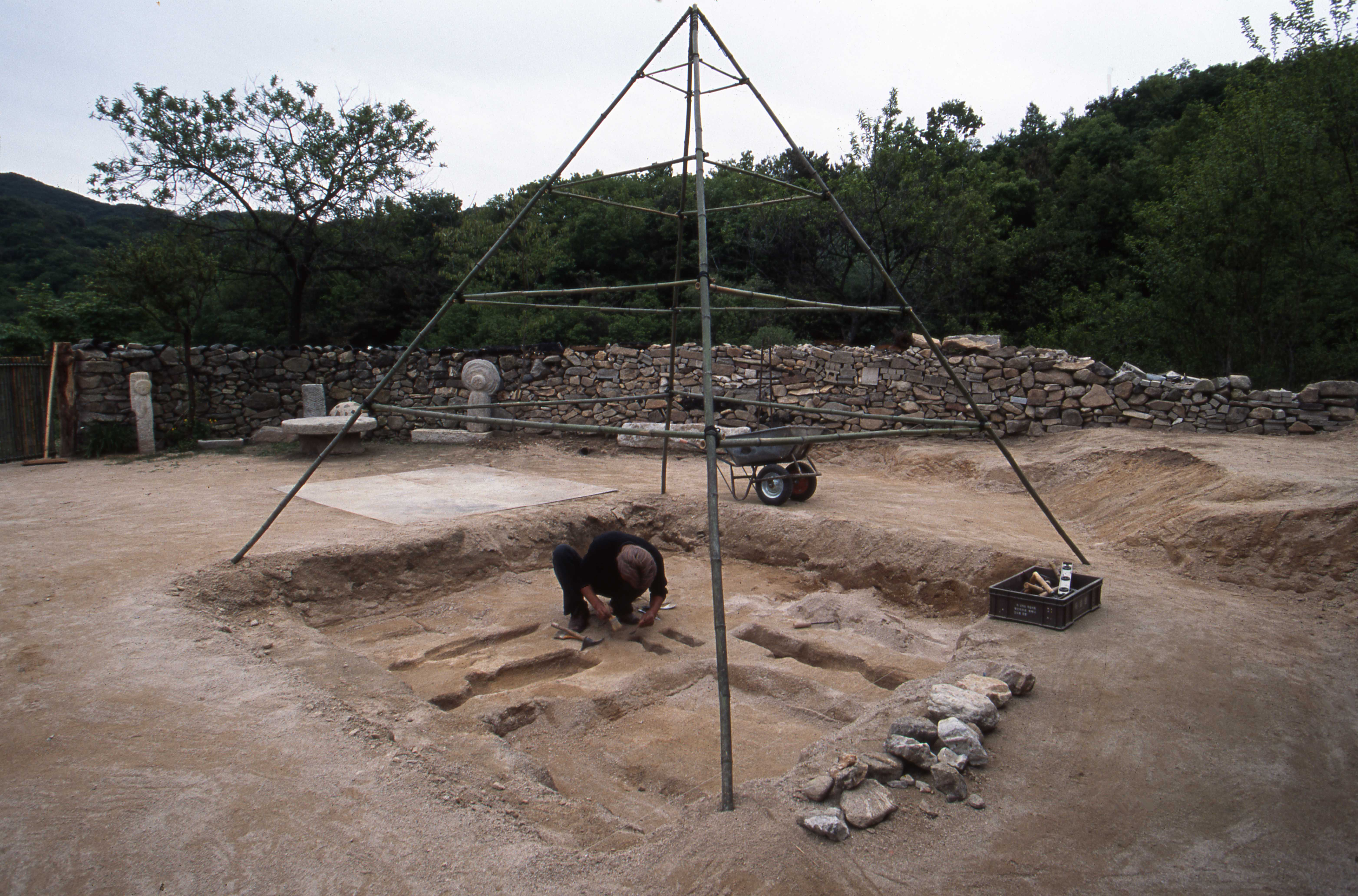 Sculptor Lee Yeoungsup excavation technique